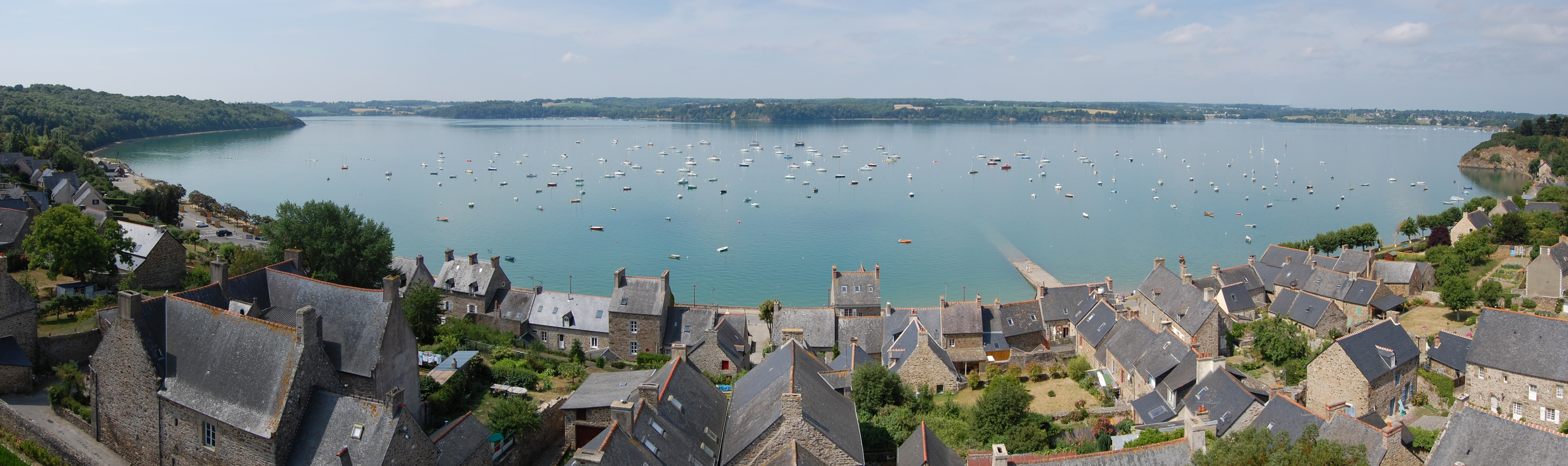 View of Saint-Suliac and La Rance from the church bell tower